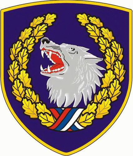 Logo of the JSO red berets.